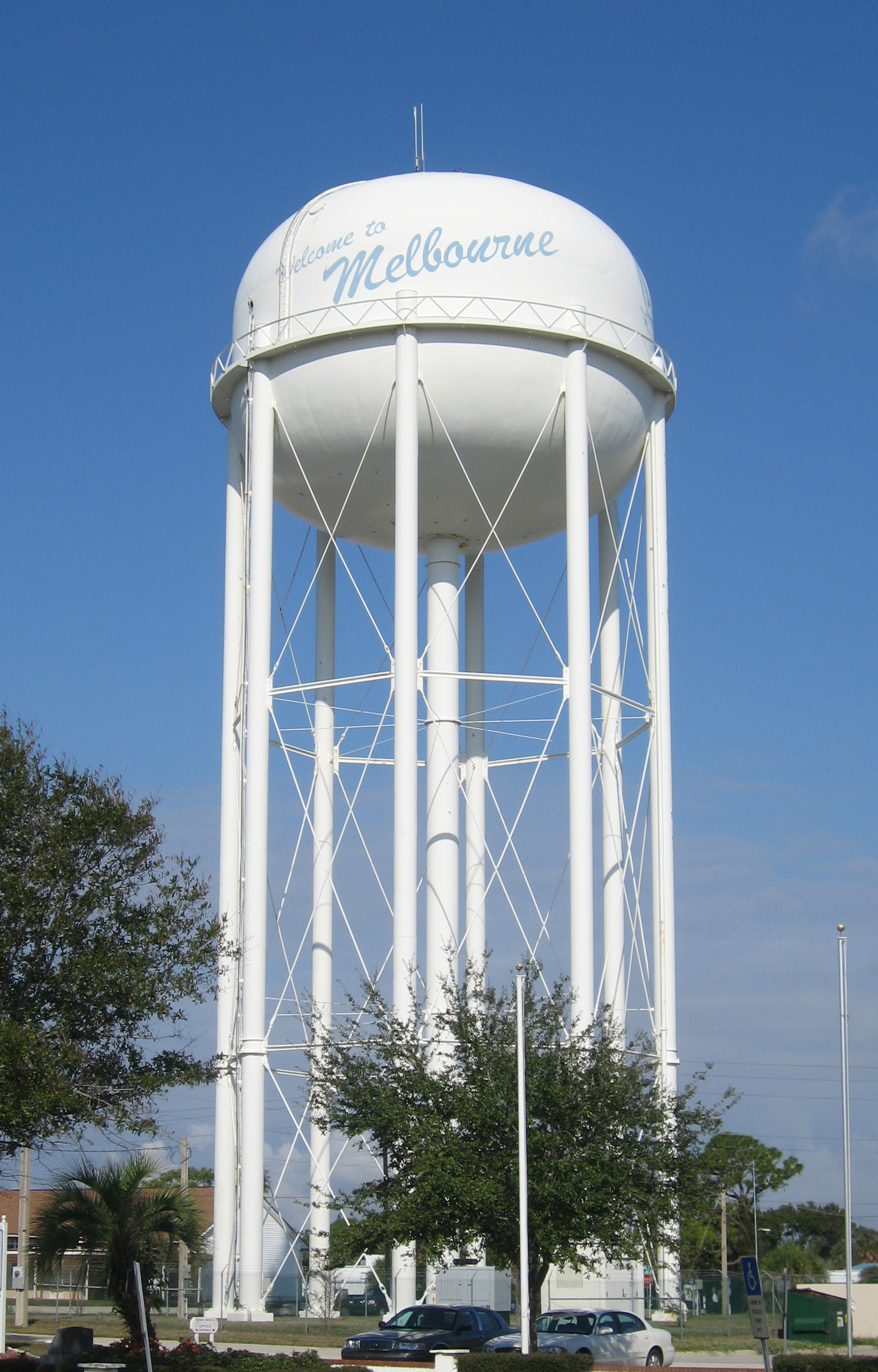 Water tower in Melbourne, Florida on the south side of Hibiscus Boulevard between Oak and Hickory Streets. Photograph shows south side of the water tower.